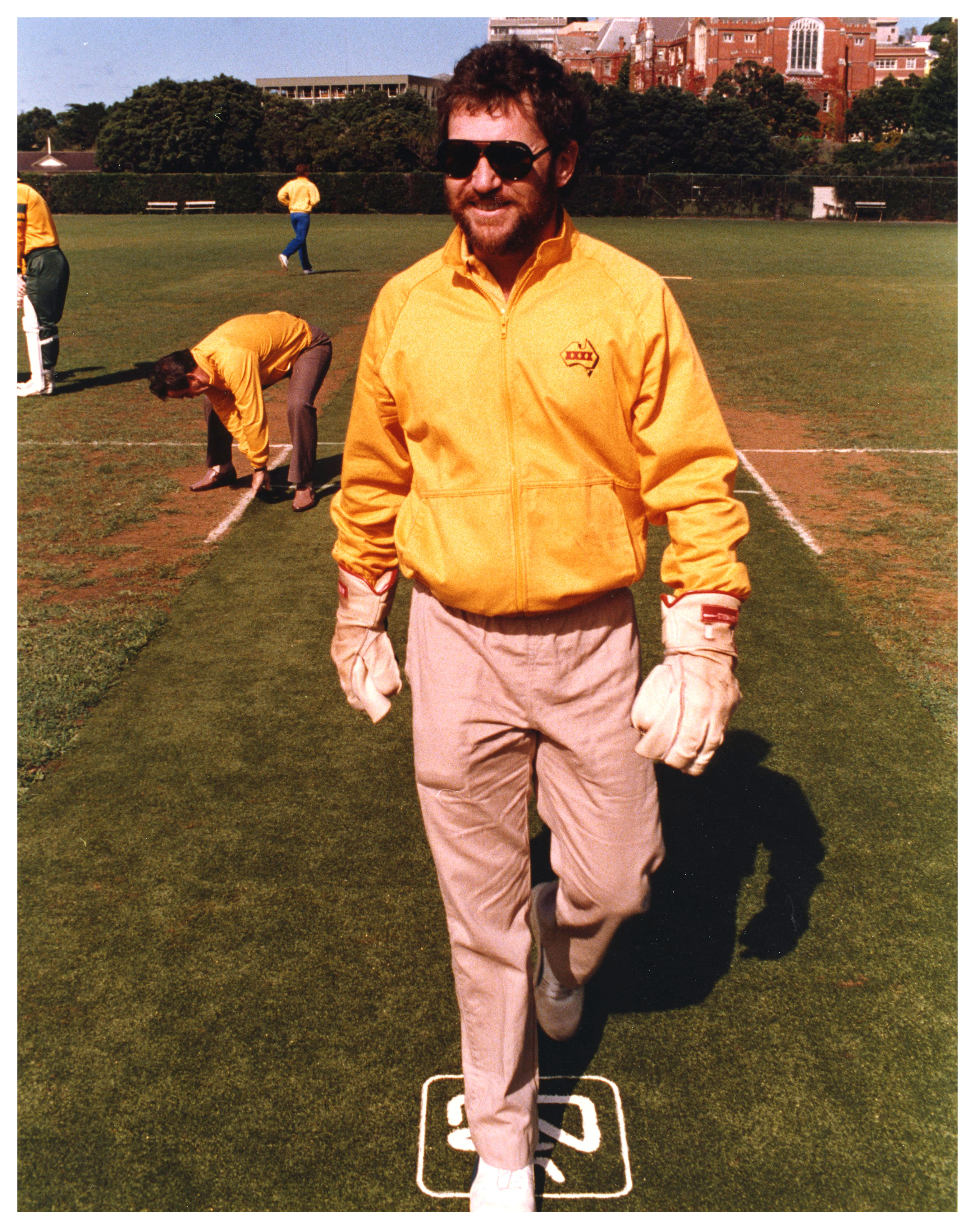 In 1986 a group of Australian Cricket stars visited Victoria University in Wellington to promote the installation of an artificial cricket pitch at Kelburn Park. The park is owned by Wellington City Council but has been the home of Victoria University Cricket Club since 1906. The stars were Allan Border, Craig McDermott, Bruce Reid and Geoff Marsh. We assume that the pitch was sponsored by New Zealand Post as there are images of the pitch with the New Zealand Post logo applied. Pictured here we have Allan Border. Allan Border played 156 tests and 273 ODI’s for Australia. He made his last international appearance in 1994 This image is from a series of photos transferred by New Zealand Post to Archives New Zealand. The collection was part of the Post Office Museum and Archives. This image and other items from the series can be seen in the Wellington Reading Room of Archives New Zealand. For further enquiries please File Reference: AAME 8106 W5603 125 11/10/111 Throughout the Cricket World Cup 2015, Archives New Zealand will be highlighting a selection of cricket related records which are found in our holdings. For further updates on our cricket posts and other streams follow us on Twitter Material from Archives New Zealand